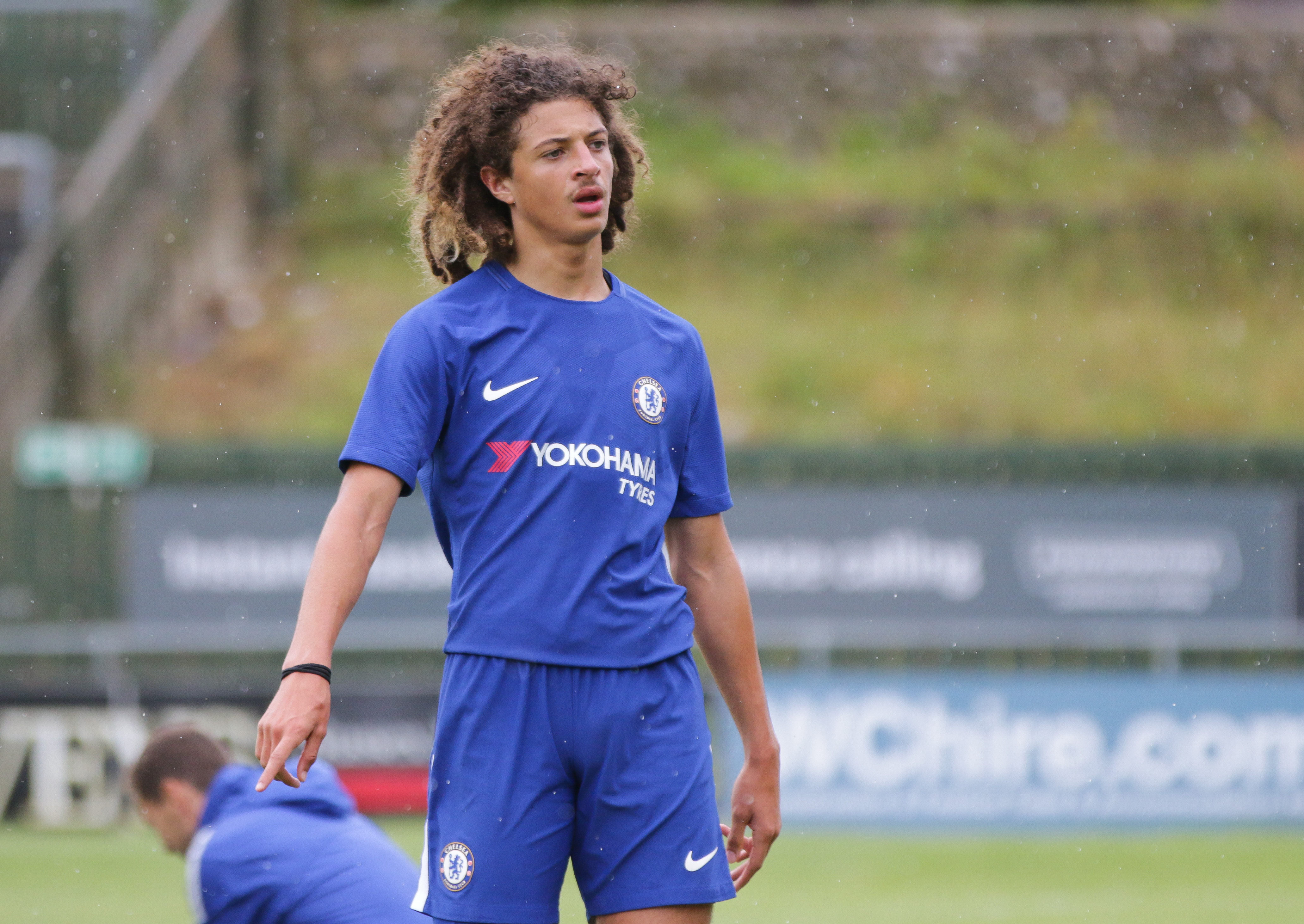 Lewes 0 Chelsea DS 1 Pre Season 22 07 2017-348.jpg